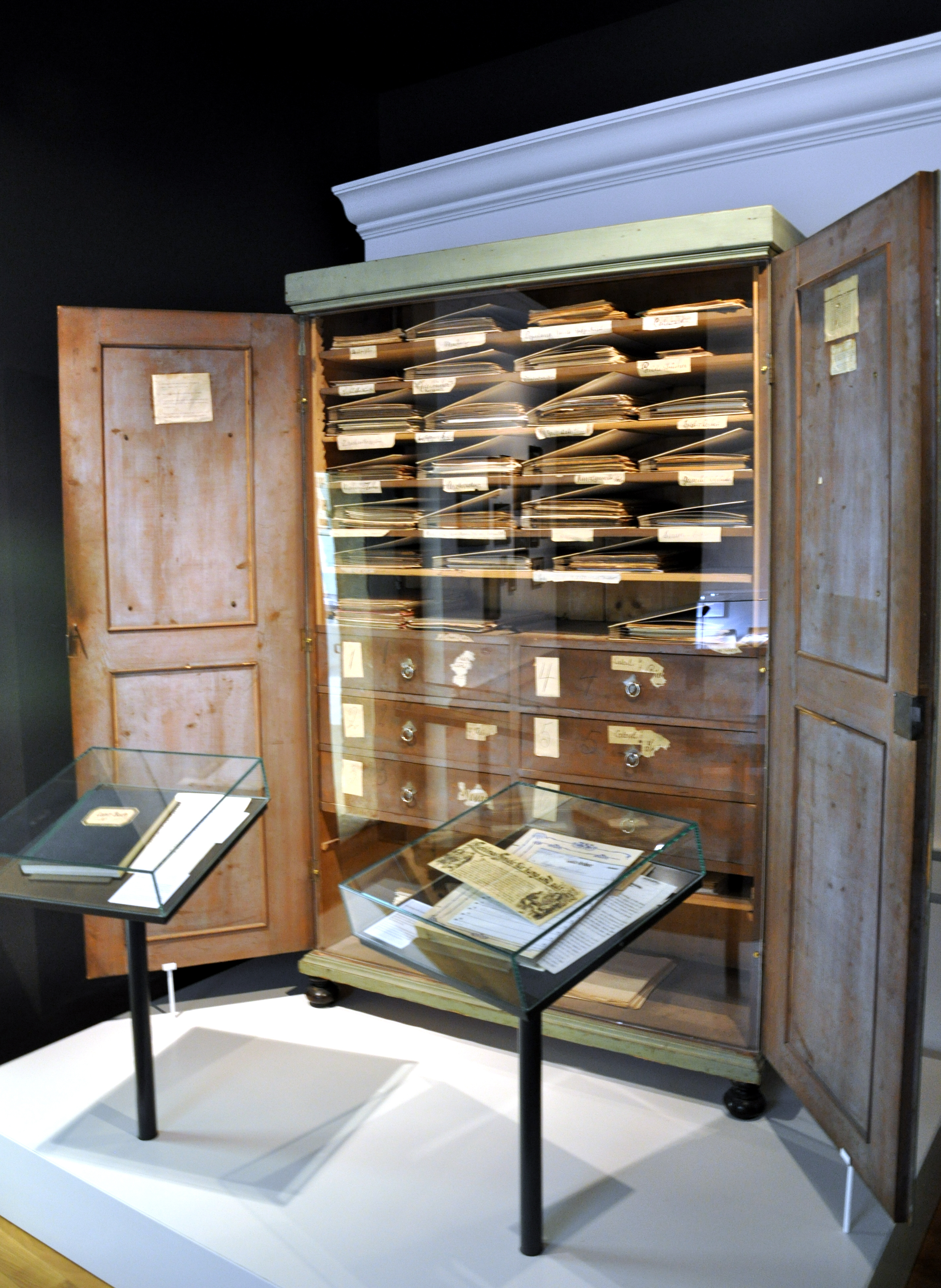 Ravensburg, Museum Ravensburger Aktenschrank aus dem 19. Jh. Museum Ravensburger LocationRavensburg, GermanyCoordinates47° 46′ 49.08″ N, 9° 36′ 55.95″ E Established2010 Web page Authority control : Q18760637 institution QS:P195,Q18760637